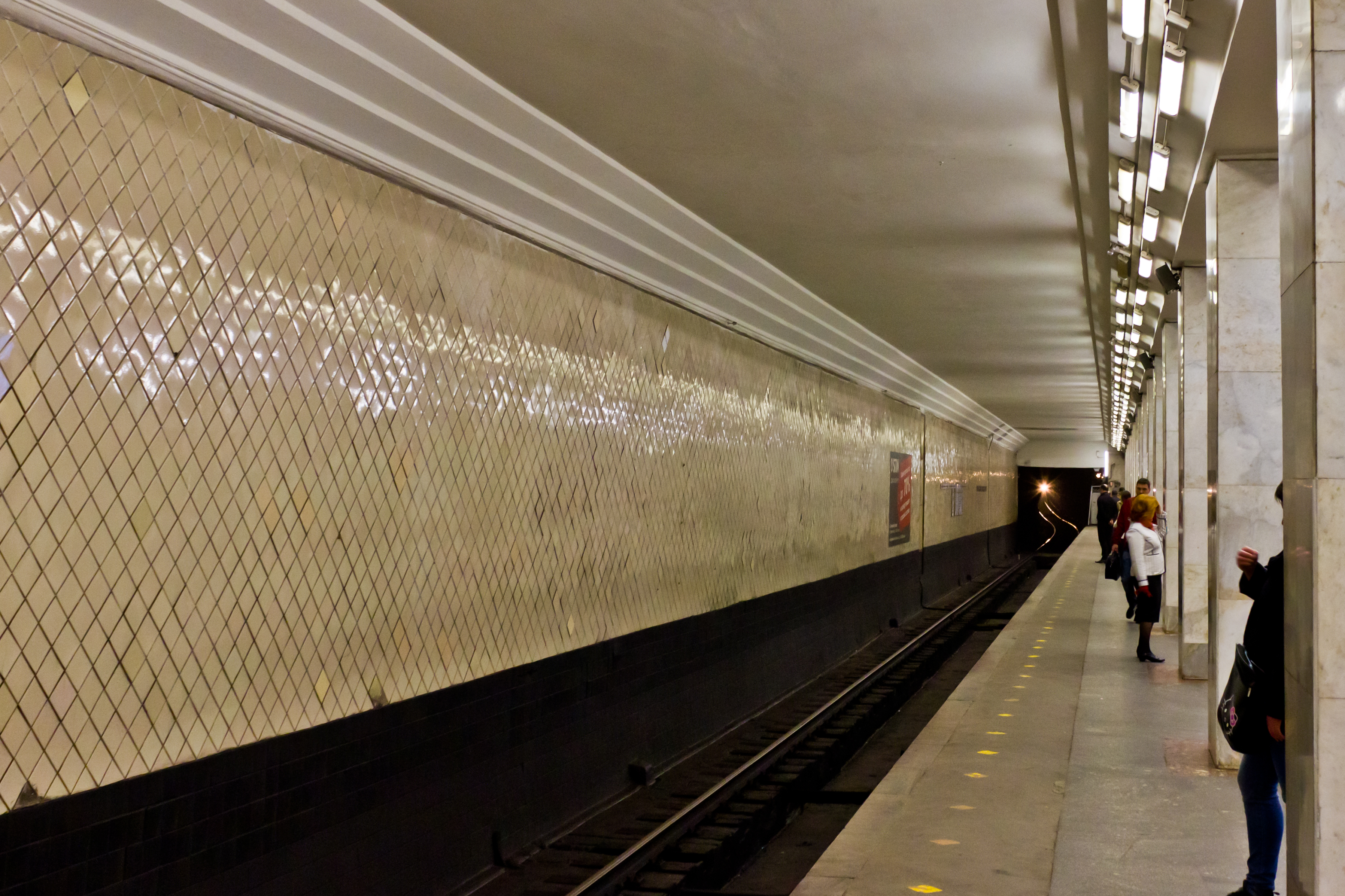 Leninsky Prospekt Moscow Metro station.